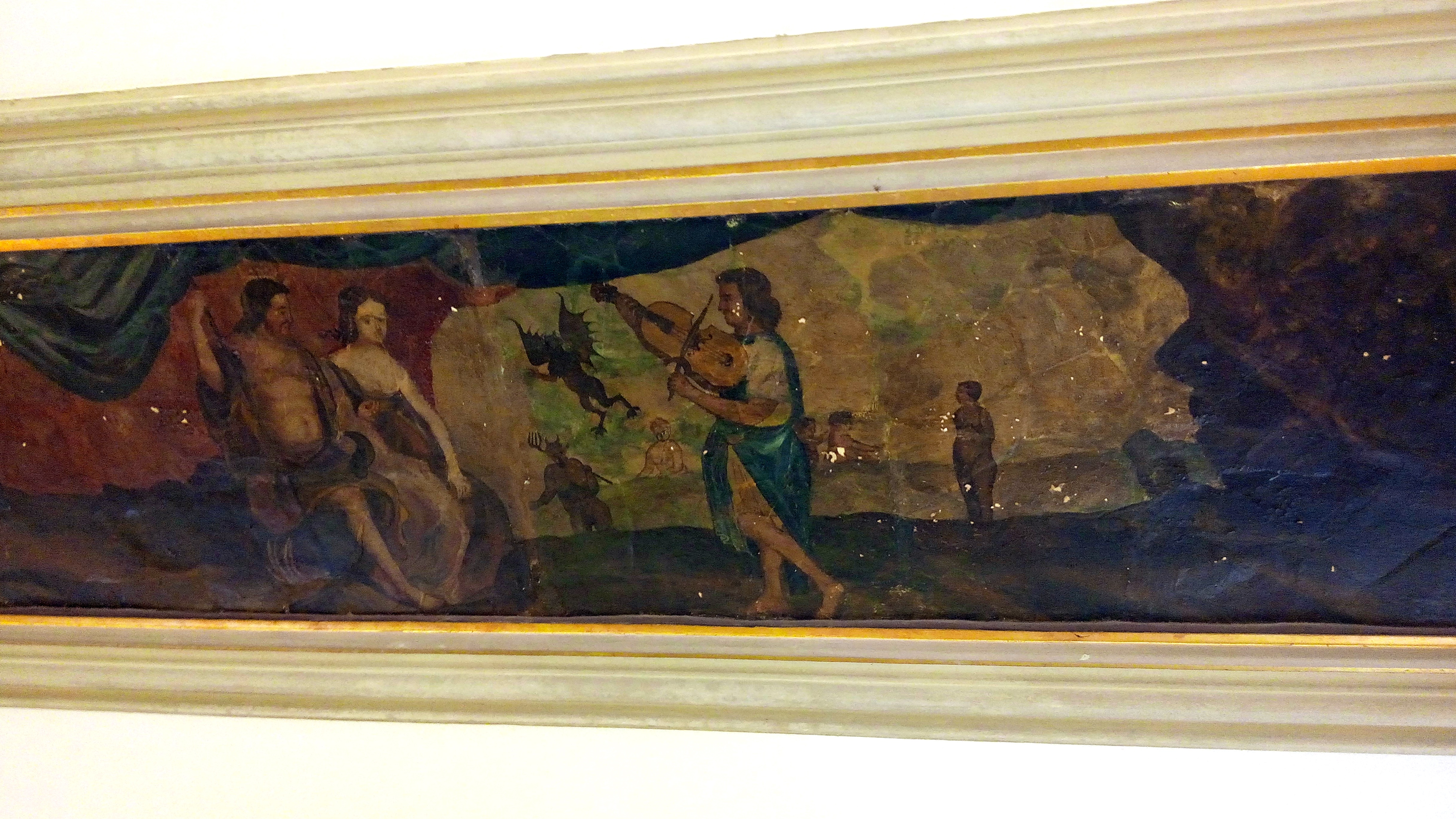 Leininger Oberhof, Grünstadt, Deckengemälde "Orpheus in der Unterwelt", (verm.) von Johann Martin Seekatz (1680–1729)